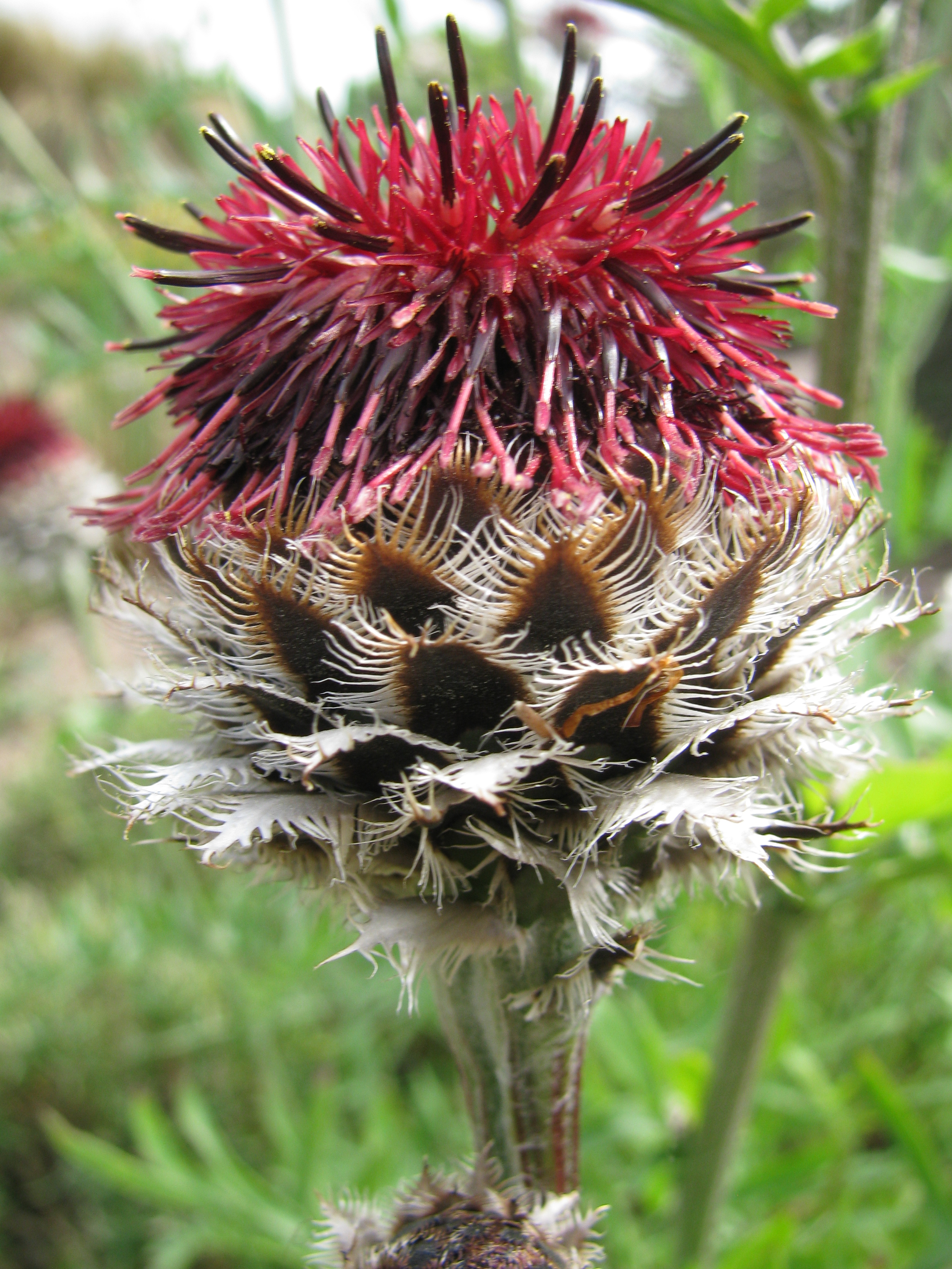 Centaurea atropurpurea Royal Botanic Garden Edinburgh: Accession number 2003.0713 A